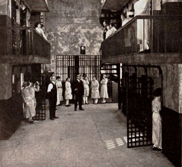 Still from the American drama film Handcuffs or Kisses (1921) showing one of the sets, on page 68 of the June 25, 1921 Exhibitors Herald.